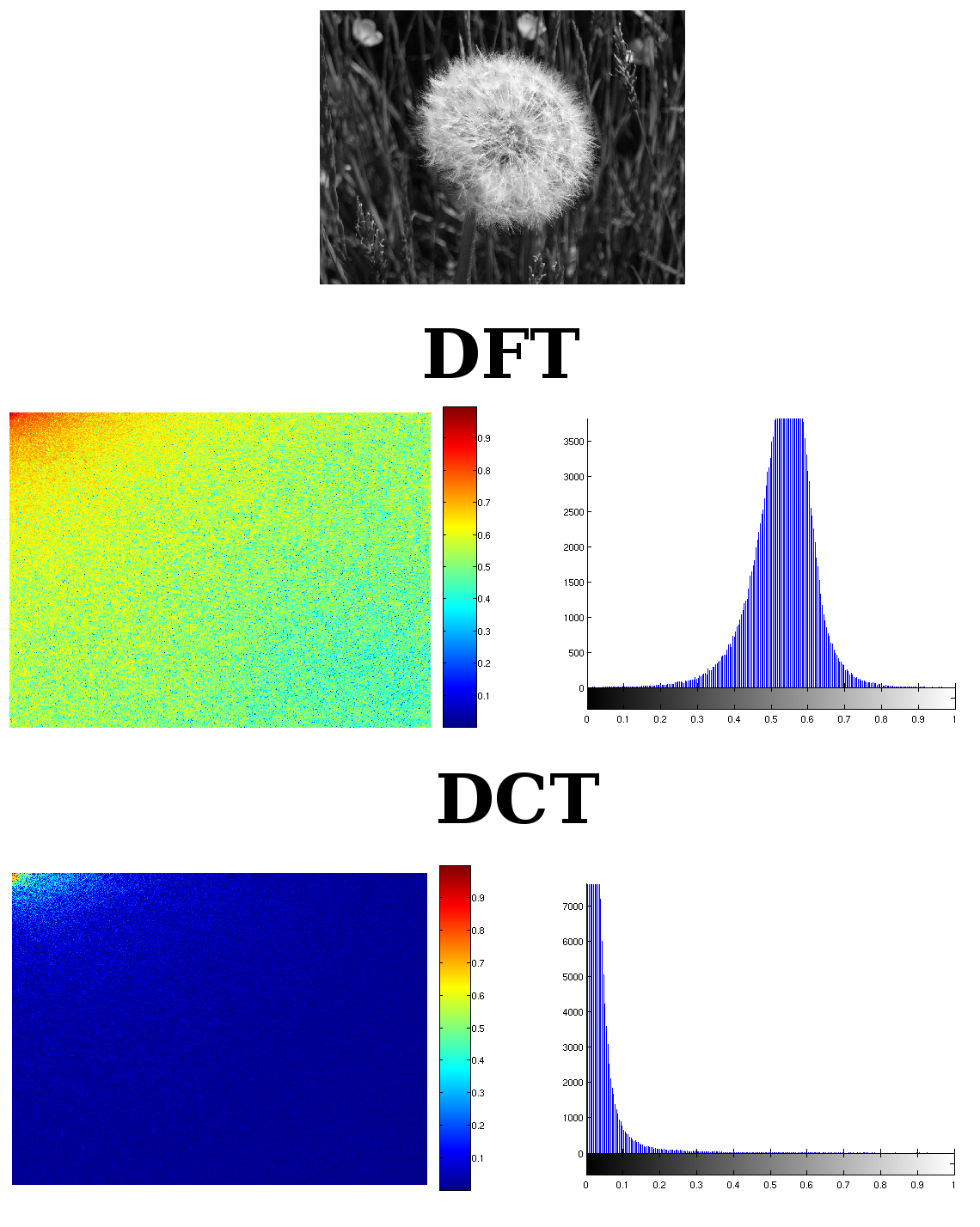 the picture shows the difference between the DFT and a DCT of an image